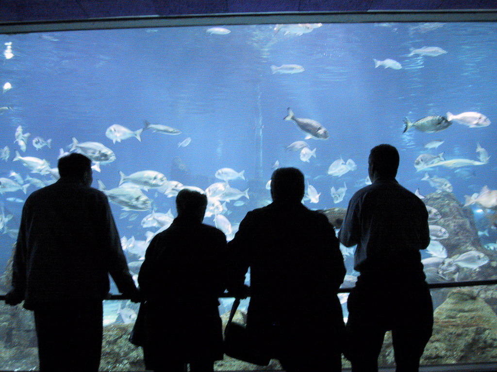 Aquarium of Barcelona